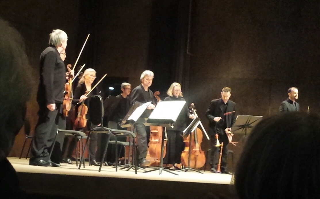 Ensemble Stadivaria (including Freddy Eichelberger inside the MBAM Bourgie Hall photographed in Montréal, Québec, Canada.